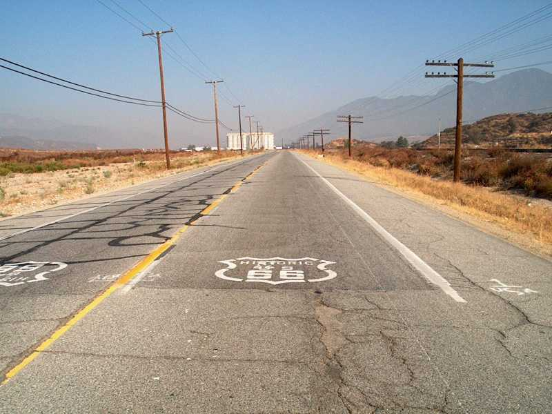 Pavement markings for Old Route 66, on its Cajon Blvd. section, in San Bernardino, California. August 29, 2001.